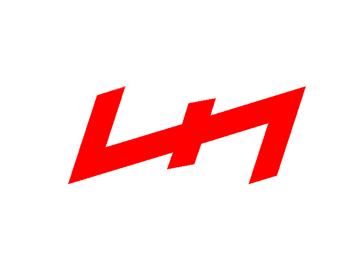 Mark of German 15 Panzer Division during WWII - Variant